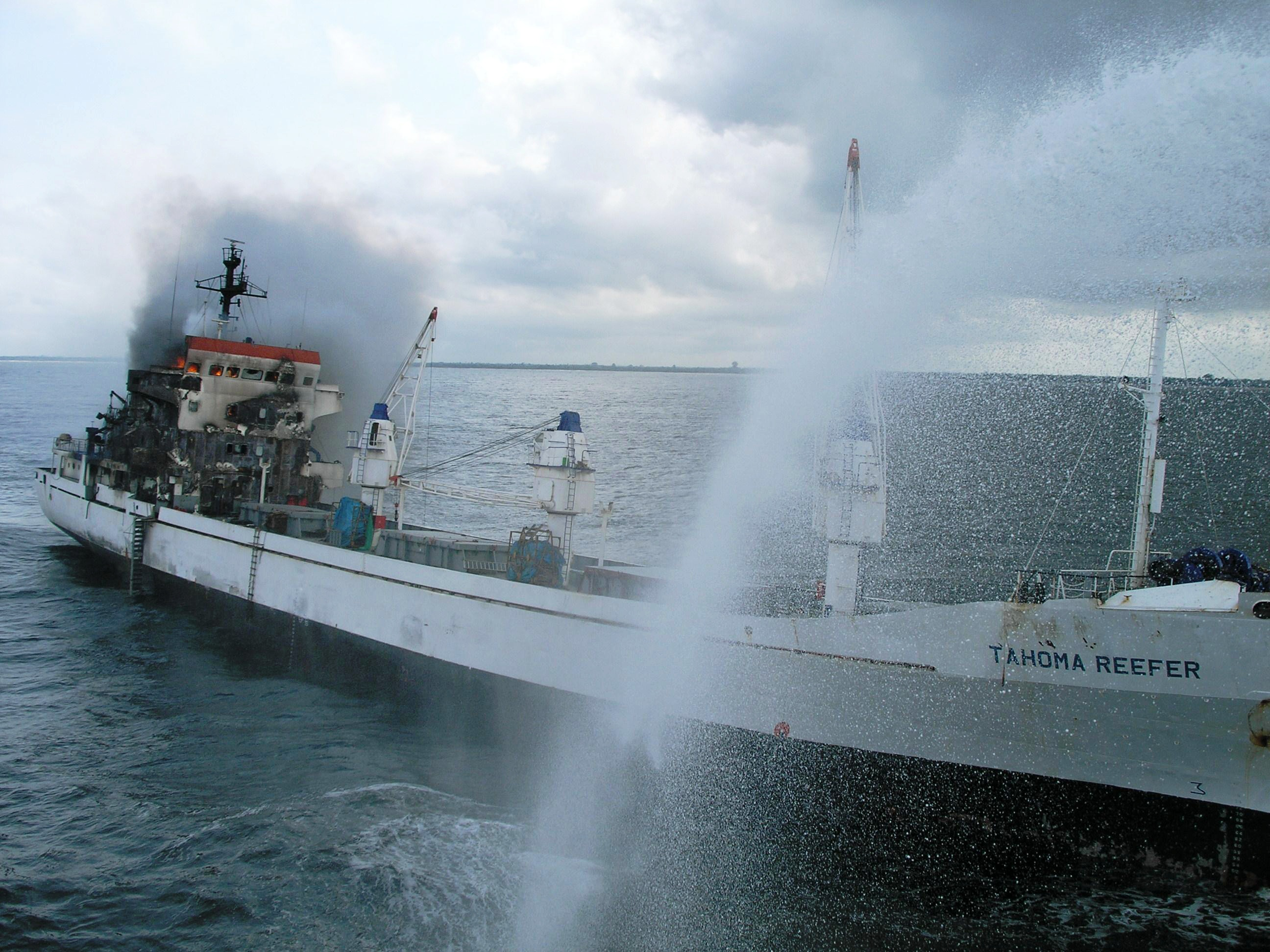 Crew members aboard the Military Sealift Command (MSC) fleet ocean tug USNS Apache (T-ATF 172) battle the flames aboard commercial freighter Tahoma Reefer. IMO Number: 7812086 Callsign: J8B3007